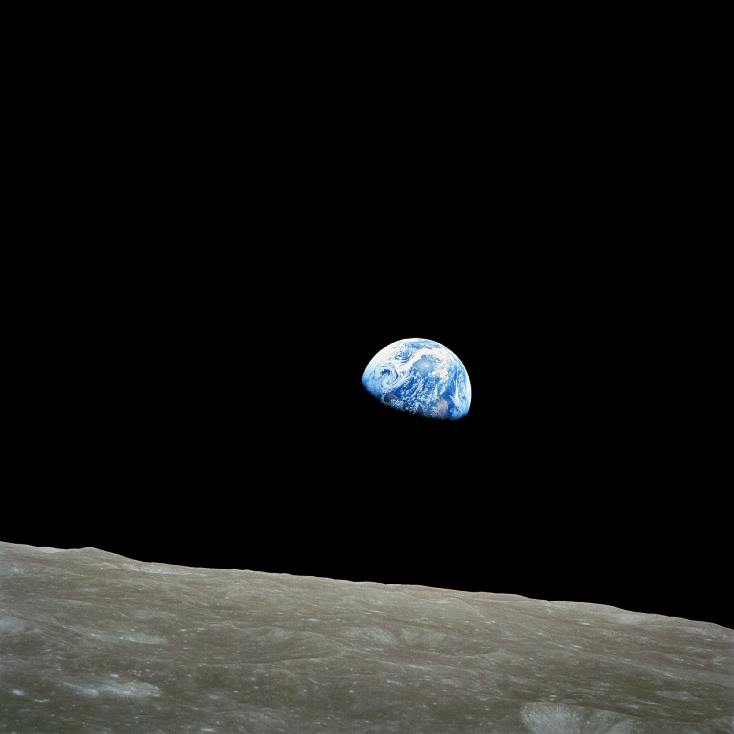 Taken by Apollo 8 crewmember Bill Anders on December 24, 1968, at mission time 075:49:07 [8] (16:40 UTC), while in orbit around the Moon, showing the Earth rising for the third time above the lunar horizon. The lunar horizon is approximately 780 kilometers from the spacecraft. Width of the photographed area at the lunar horizon is about 175 kilometers. [9] The land mass visible just above the terminator line is west Africa. Note that this phenomenon is only visible to an observer in motion relative to the lunar surface. Because of the Moon's synchronous rotation relative to the Earth (i.e., the same side of the Moon is always facing Earth), the Earth appears to be stationary (measured in anything less than a geological timescale) in the lunar "sky". In order to observe the effect of Earth rising or setting over the Moon's horizon, an observer must travel towards or away from the point on the lunar surface where the Earth is most directly overhead (centred in the sky). Otherwise, the Earth's apparent motion/visible change will be limited to: 1. Growing larger/smaller as the orbital distance between the two bodies changes. 2. Slight apparent movement of the Earth due to the eccenticity of the Moon's orbit, the effect being called libration. 3. Rotation of the Earth (the Moon's rotation is synchronous relative to the Earth, the Earth's rotation is not synchronous relative to the Moon). 4. Atmospheric & surface changes on Earth (i.e.: weather patterns, changing seasons, etc.). Two craters, visible on the image were named 8 Homeward and Anders' Earthrise in honor of Apollo 8 by IAU in 2018. [10]